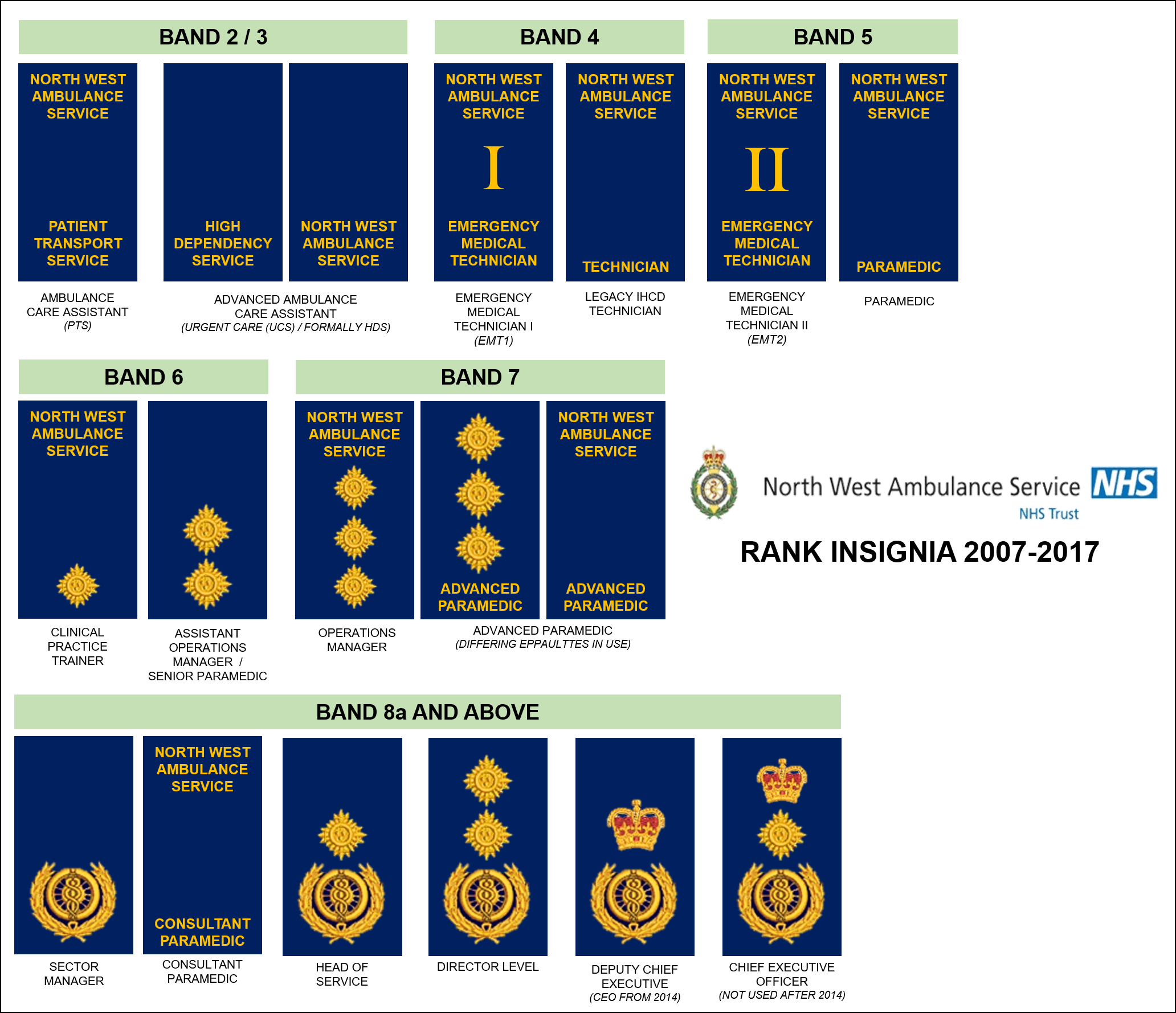 Rank Structure used by the North West Ambulance Service (NWAS) from 2006/7 until 2017. Dark Green Epaulettes began to be rolled out in 2015.